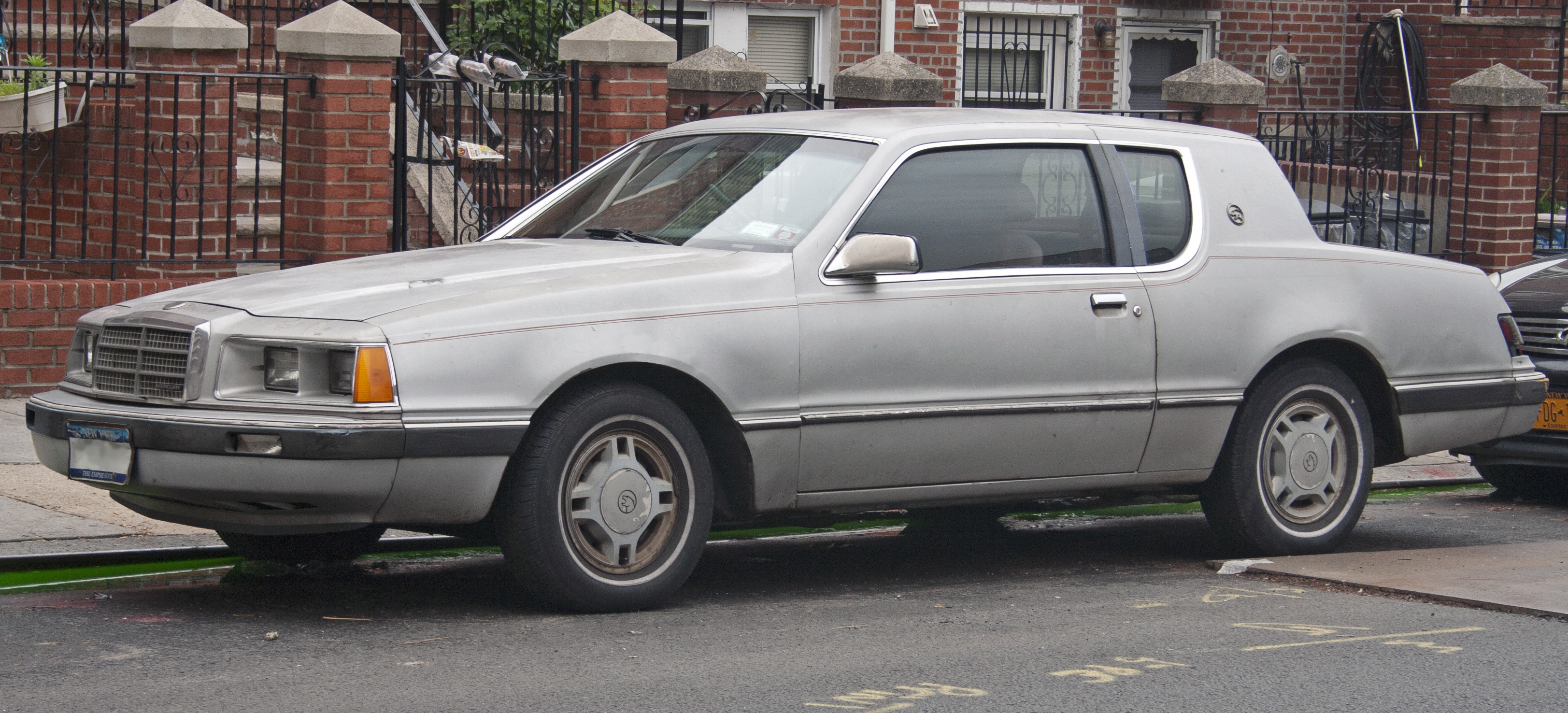 1986 Mercury Cougar, early version of the sixth generation.